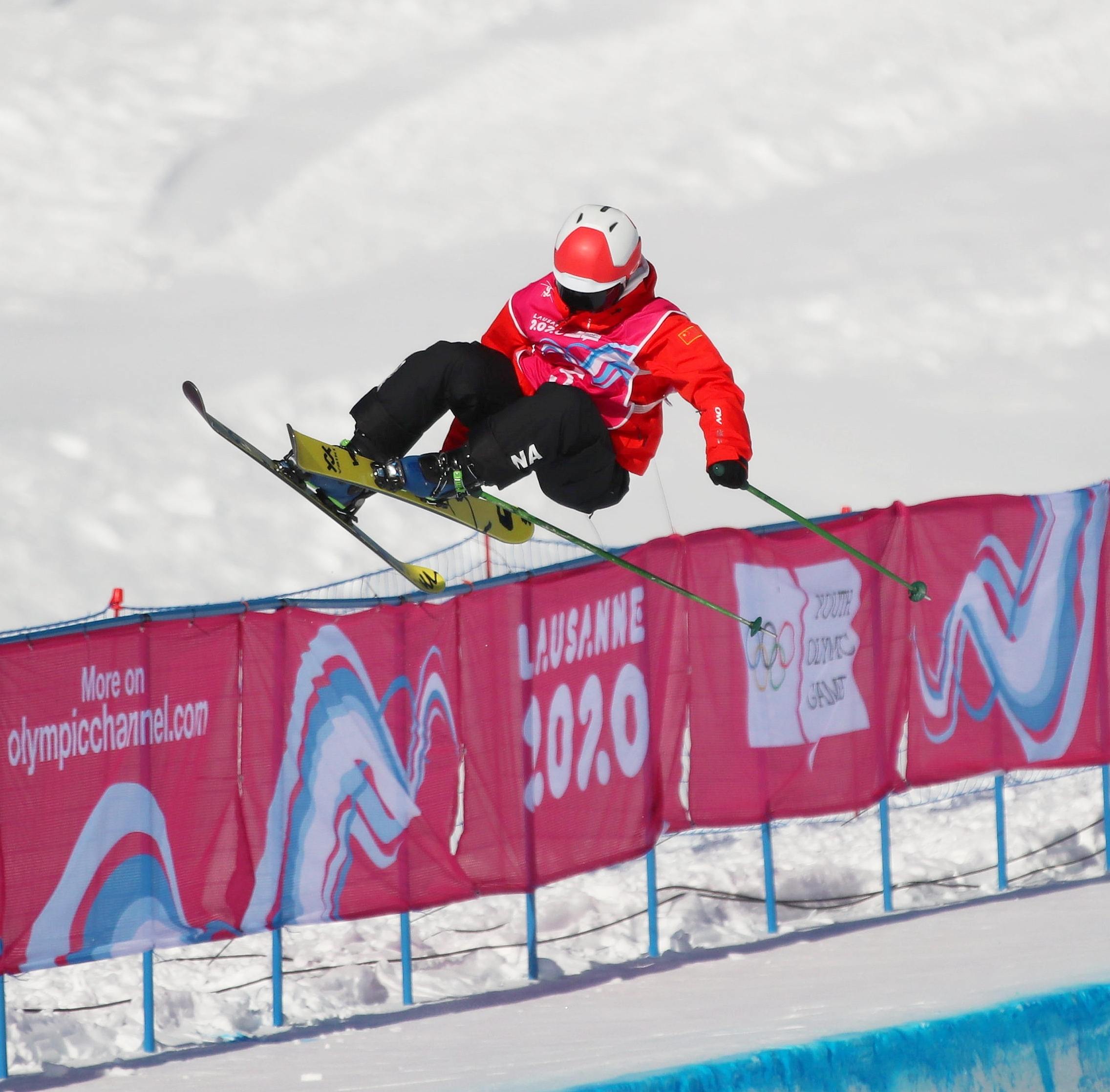 2nd qualification run of Freestyle skiing – Women's Halfpipe at the 2020 Winter Youth Olympics in Lausanne on 20 January 2020.